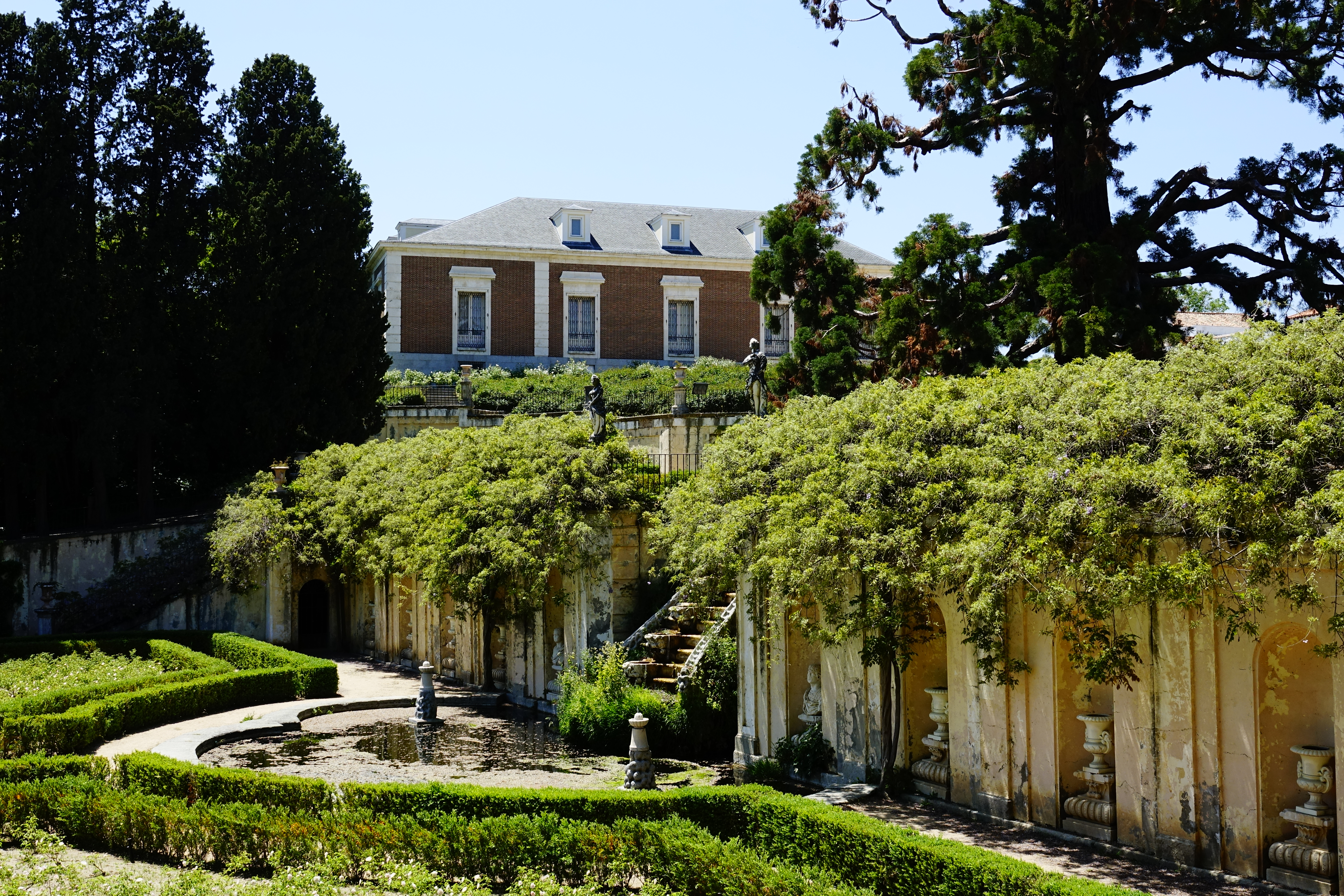 Palace of Quinta del Duque del Arco in El Pardo, Madrid.